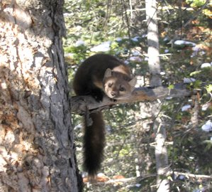 American marten (Martes americana)